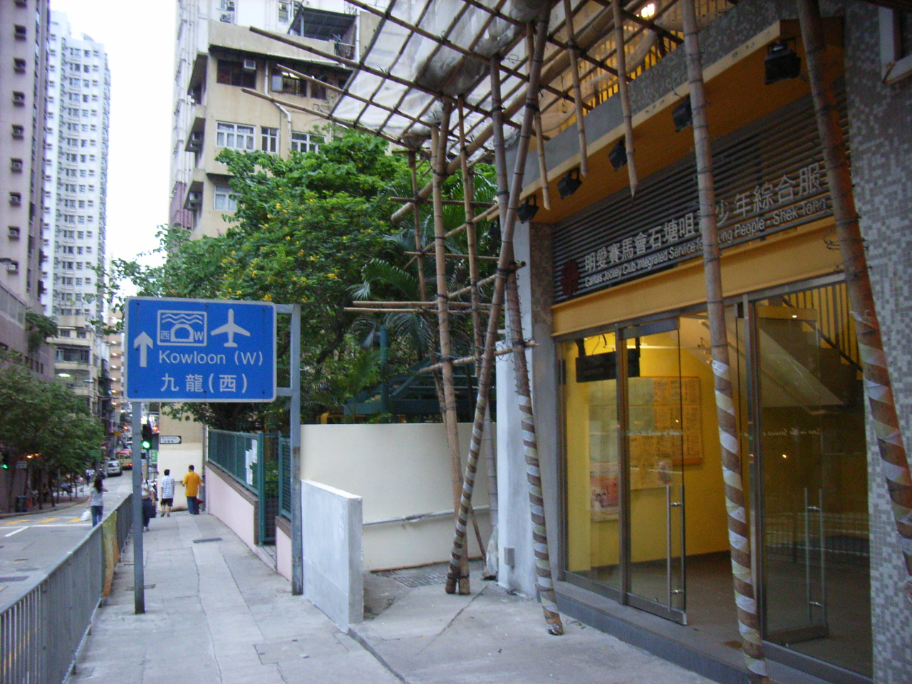 Third Street (第三街), is a street in Sai Ying Pun, Hong Kong Island. Author:zh:User:KennethTom